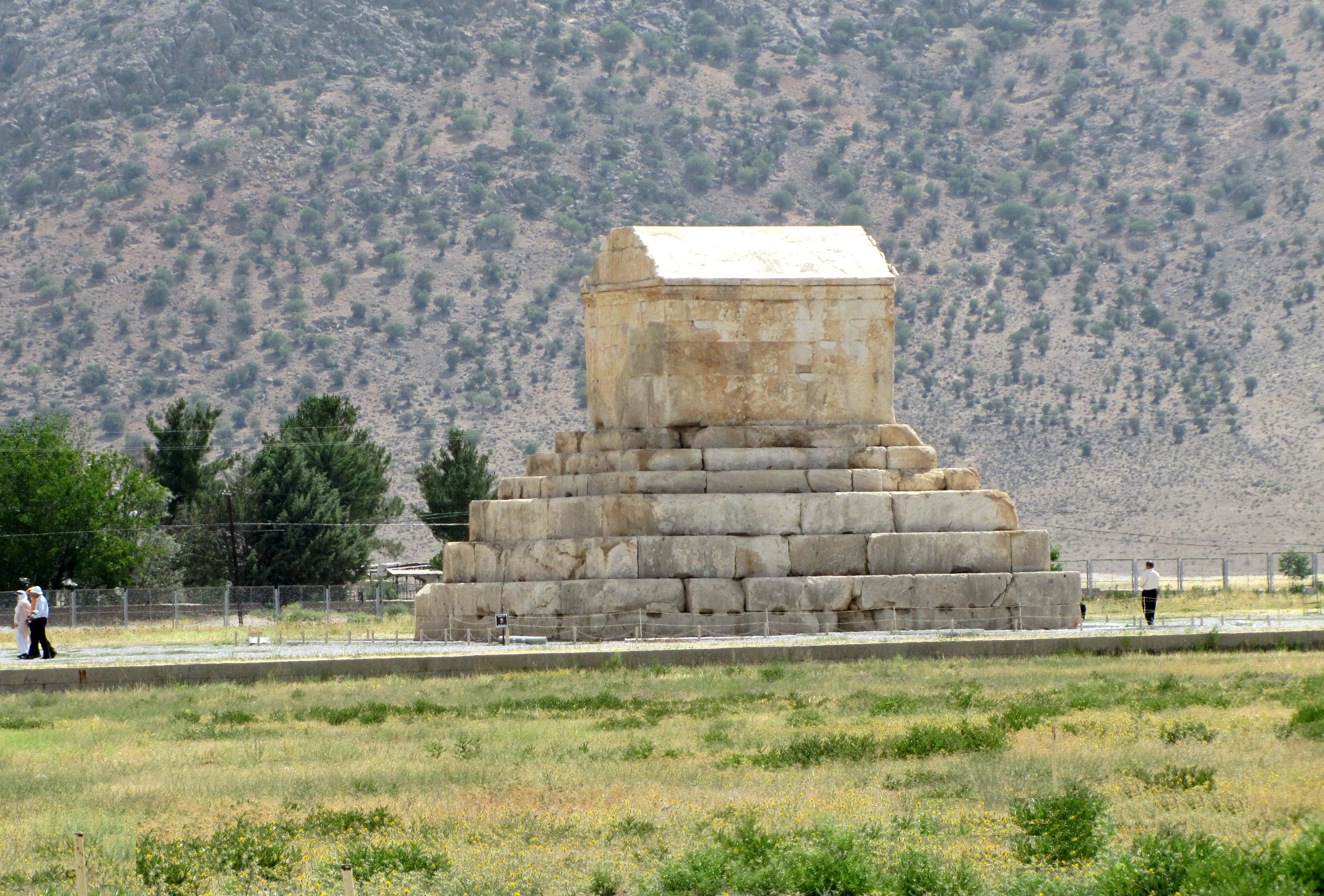 Passargad / Pasargard; tomb of Cyrus the Great, founder of Persian Empire and Achaemanid. Cyrus the Great died in 530 BC. -- Photo by Isa Pakdel / PDN